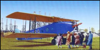 Avia BH 25 C-RIZA